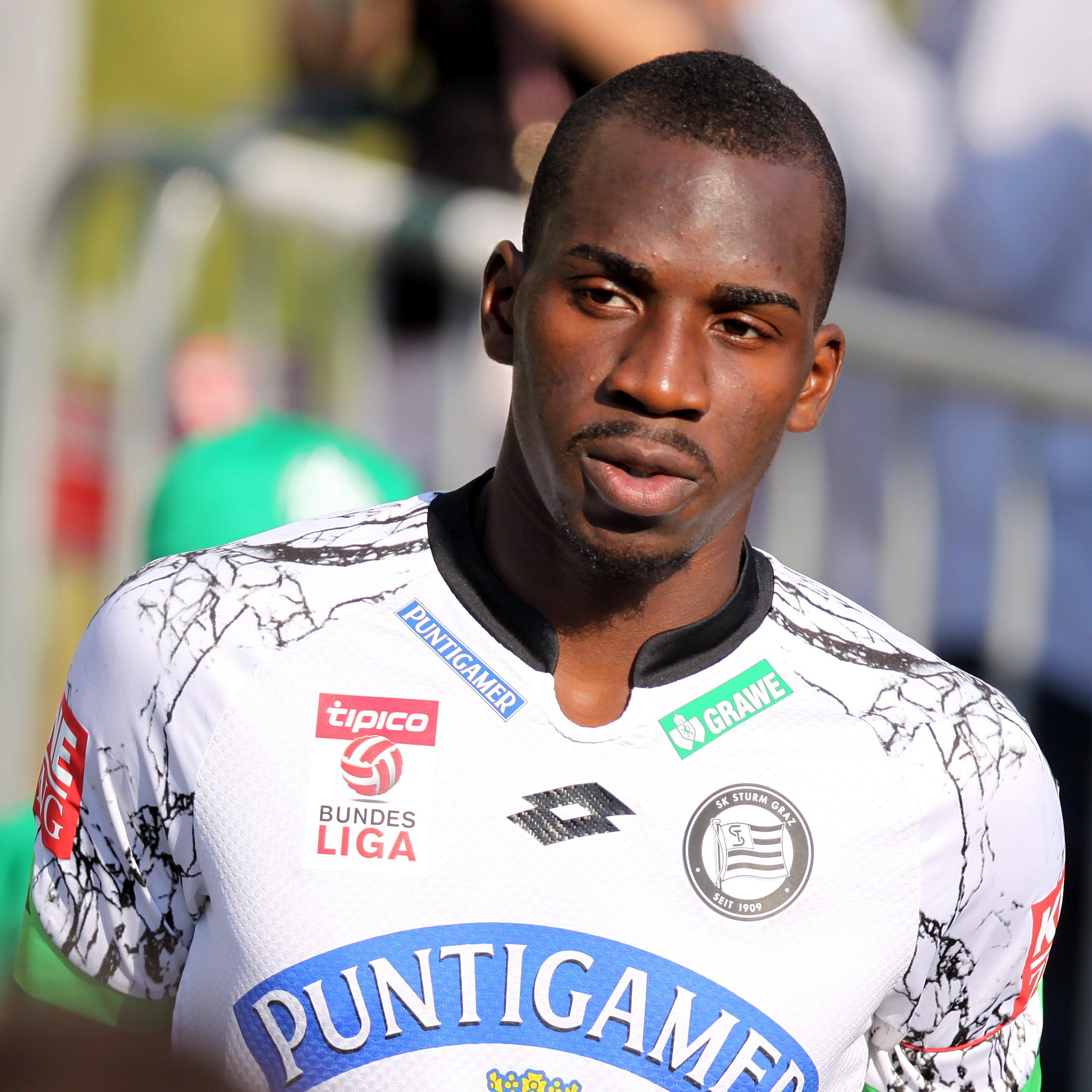 Match of the Austrian Football Bundesliga – SV Mattersburg (green shirts) vs. SK Sturm Graz (white shirts) on 2015-09-13 in Pappelstadion, Mattersburg – The photo shows Wilson Kamavuaka